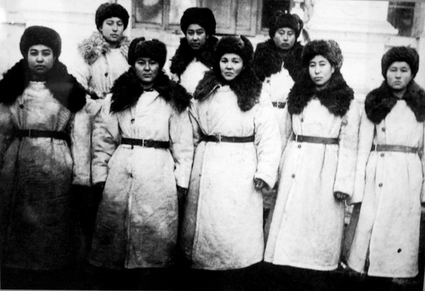 The female sodiers in the National Army during the early days of the National Army.